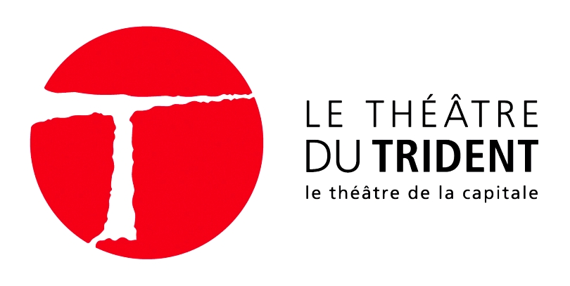 Logo du Théâtre du Trident